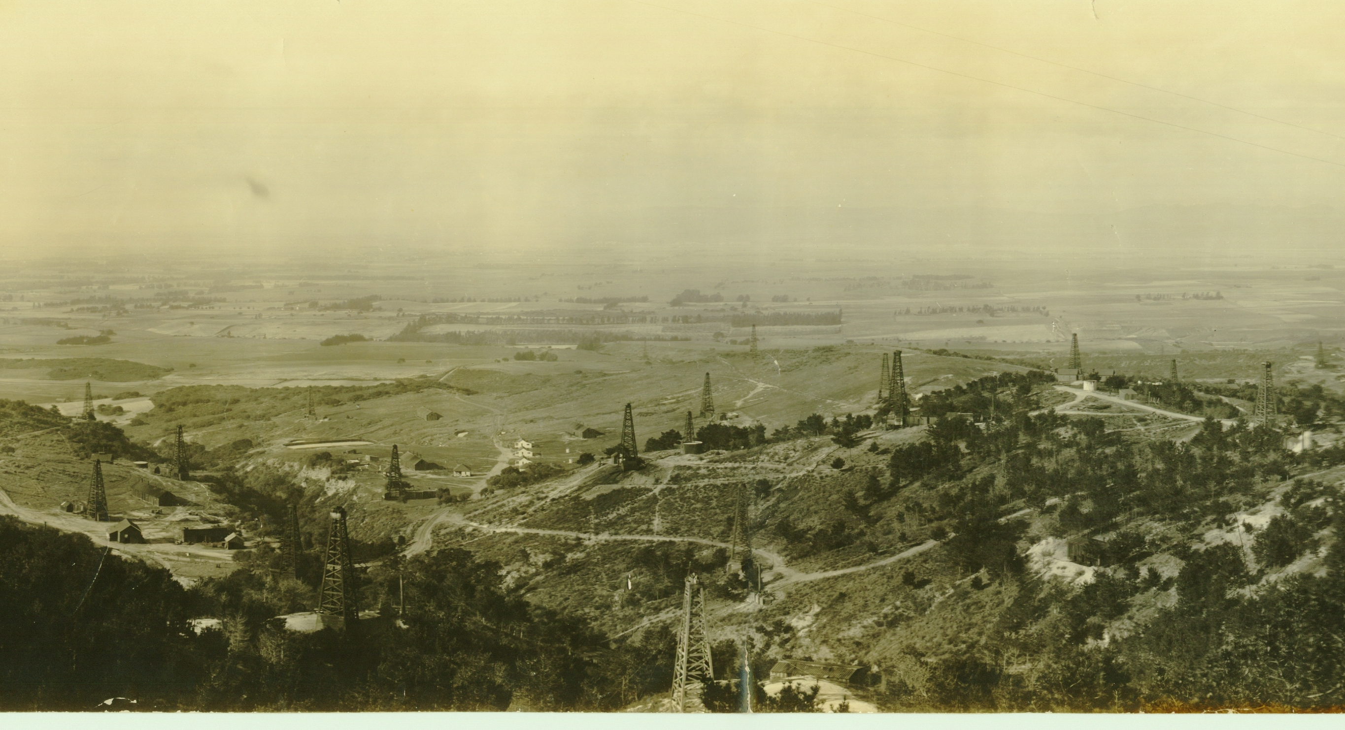 Undated photo of Orcutt Oil Field, 1911 or earlier. Photo is marked "Judkins Studio, Santa Maria" in lower right-hand corner.